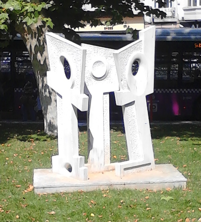 Statute of Peace by Lerzan Bengisu, Gezi Parkı, Taksim, İstanbul, Turkey